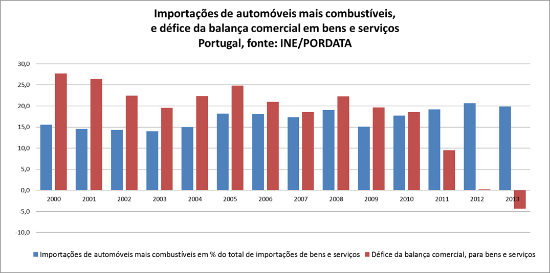 Imports of cars plus fuels in Portugal